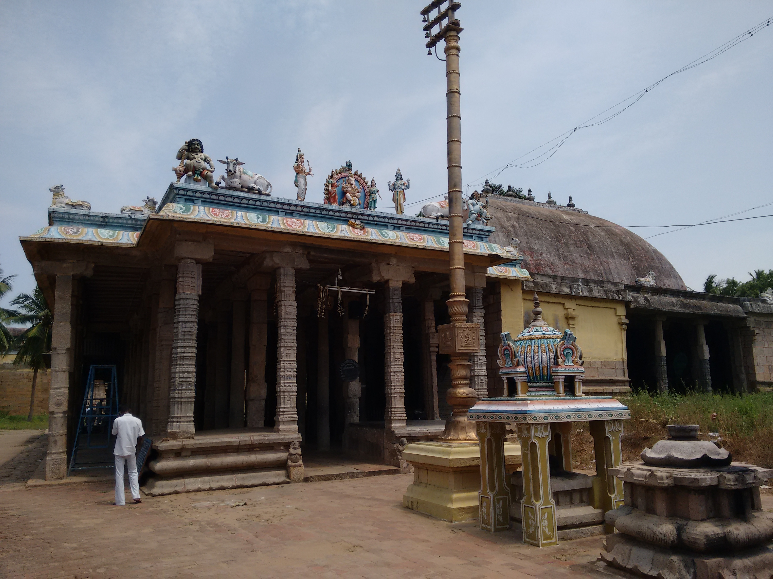 Kabardeesvararkodimarambefore vinayaka shrine கபர்தீஸ்வரர் கோயில் வளாகத்தில் விநாயகர் சன்னதி